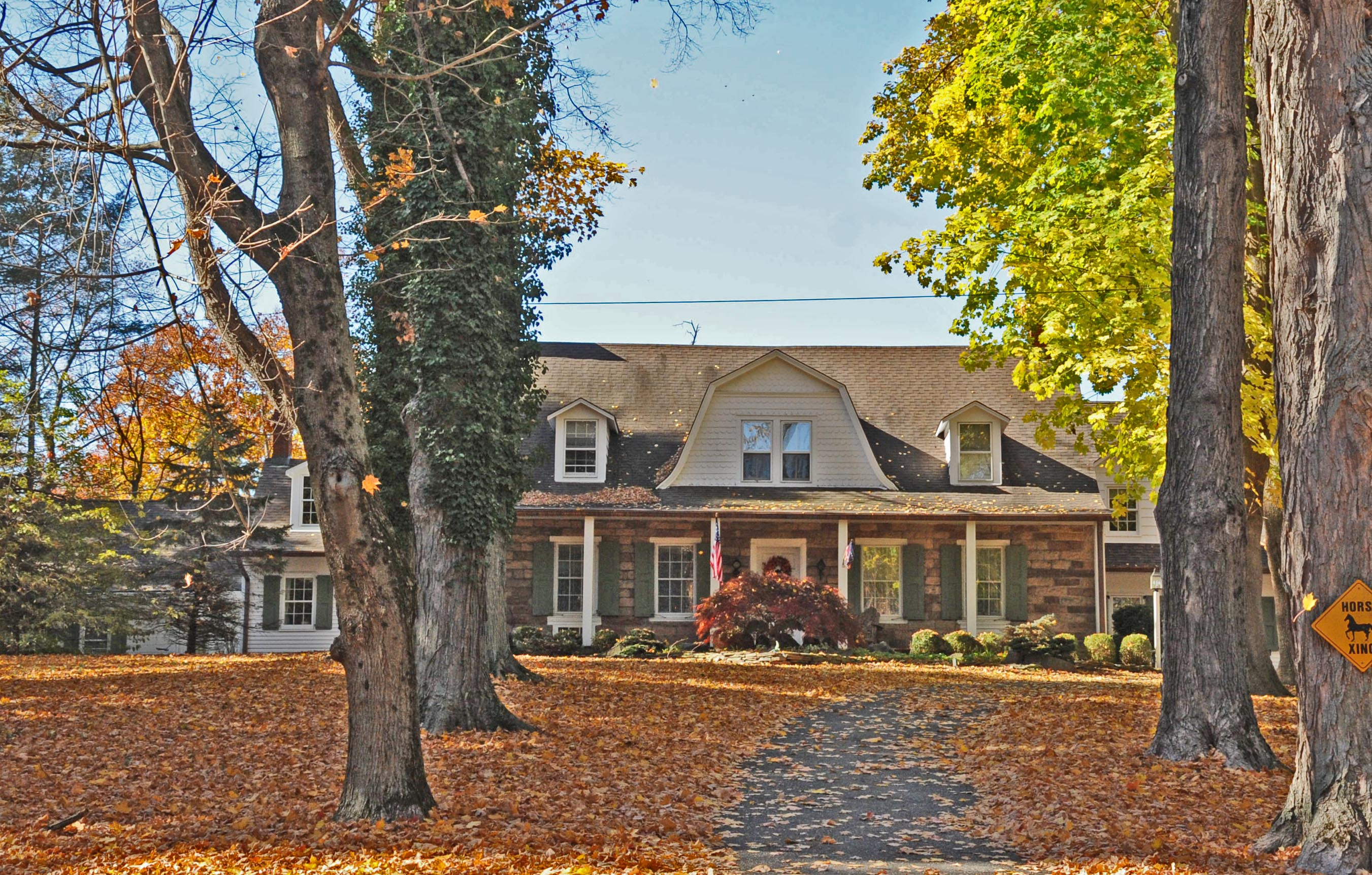 HOUSE BUILT CIRCA 1758; HE WAS A CAPTAIN IN THE MILITIA DURING THE REVOLUTION, WAS CAPTURED AND DIED IN PRISON IN NEW YORK. HIS GRANDSON OWNED THE HOUSE UNTIL 1805 WHEN MOSES TAYLOR BOUGHT THE HOUSE IN 1812